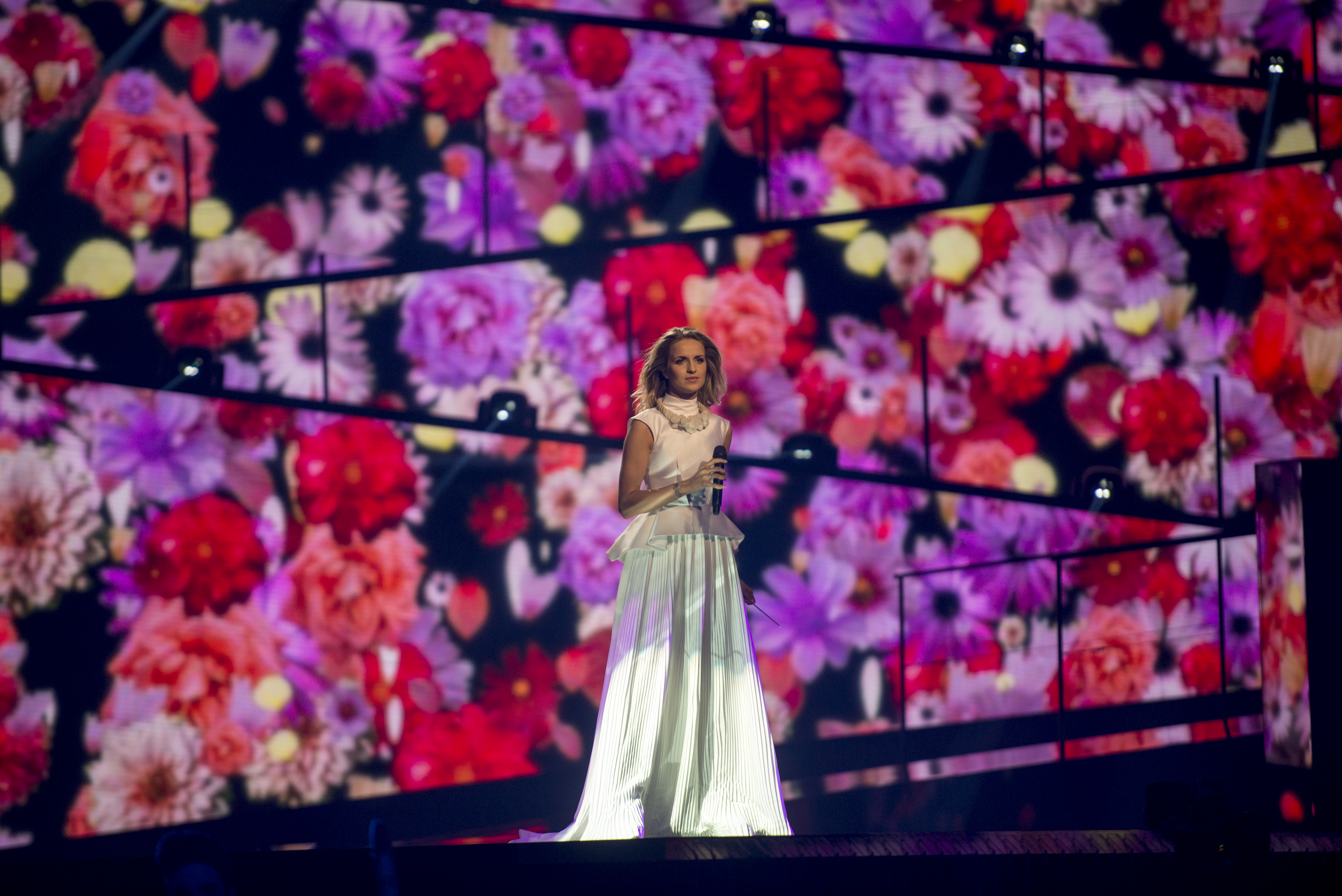 Gabriela Gunčíková representing Czech Republic with the song "I Stand" during a rehearsal before the first semi final of the Eurovision Song Contest 2016 in Stockholm. (Help translate this text)